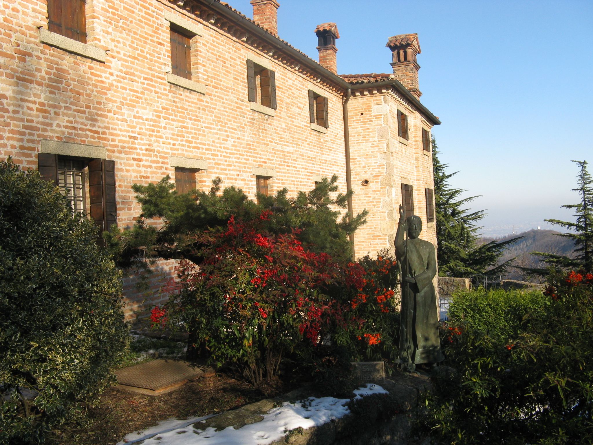 Monte della Madonna, Veneto/Italy, neue Benediktinerabtei (1960er Jahre)